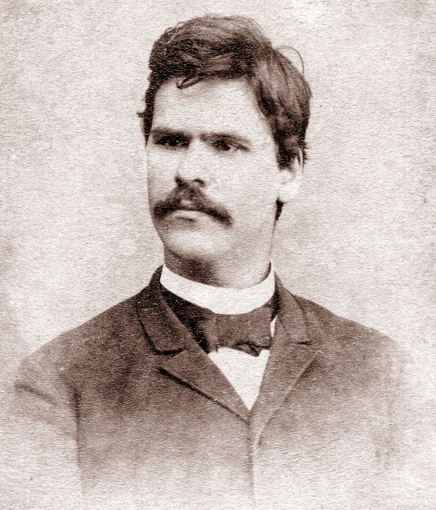 Photography of F.V. Sychkov - an artist. 1890s St. Petersburg. Russian Empire